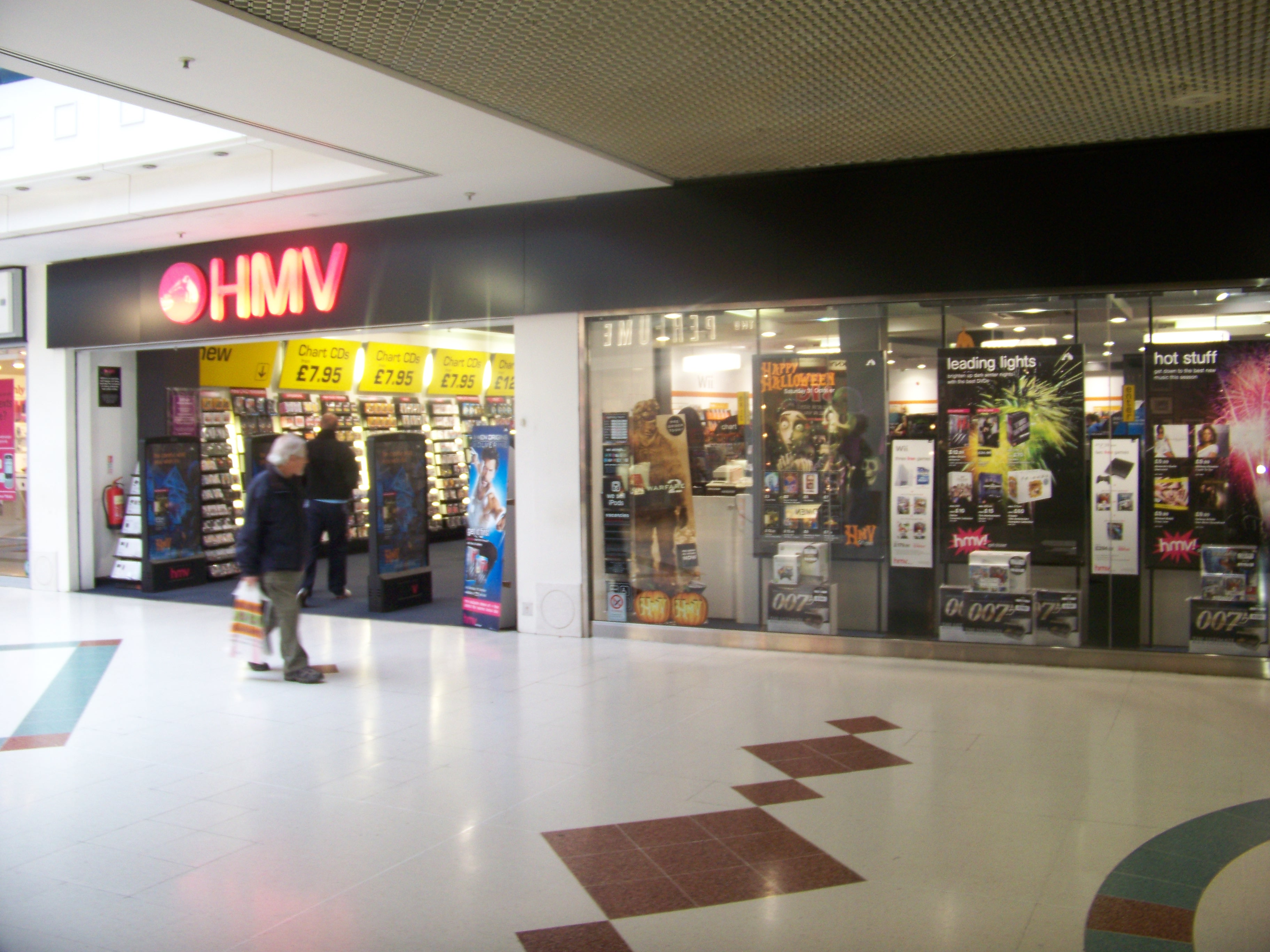 HMV in the Cornmill Centre, Darlington. Taken on a Monday in October 2009.